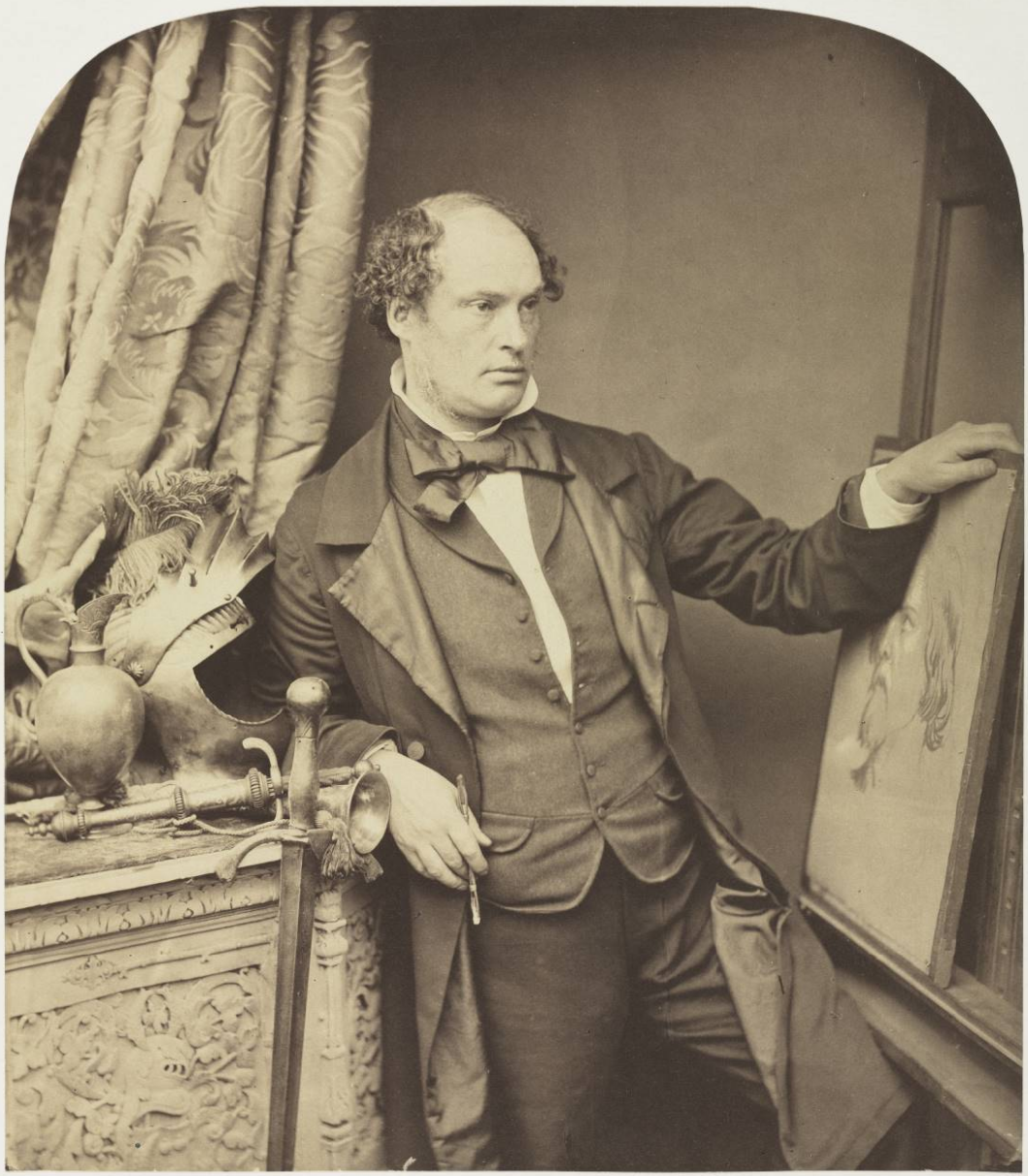 Albumen print from wet collodion negative, 1857